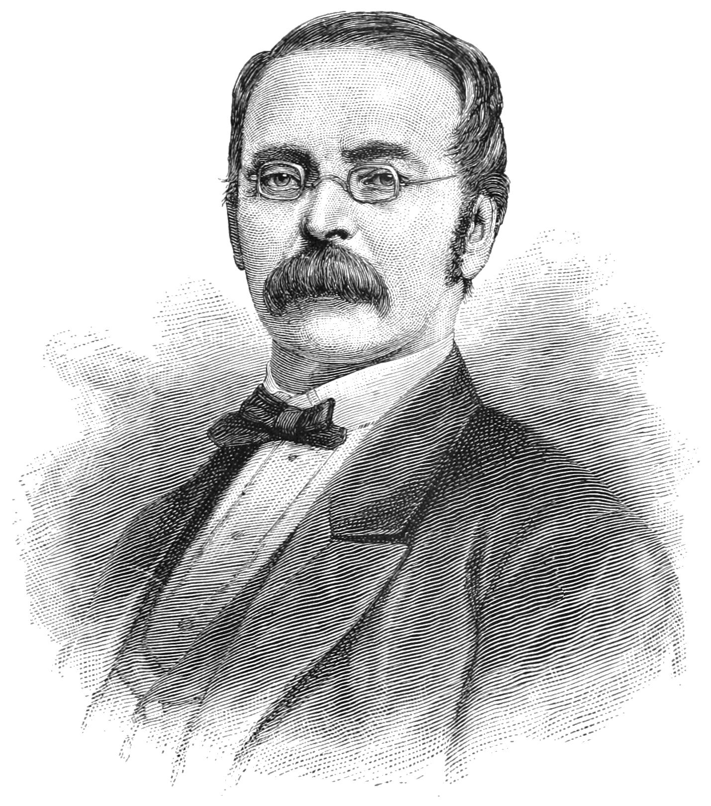 Henry E. Steinway, born Heinrich Engelhard Steinweg, (1797 – 1871), the founder of the piano company Steinway & Sons.